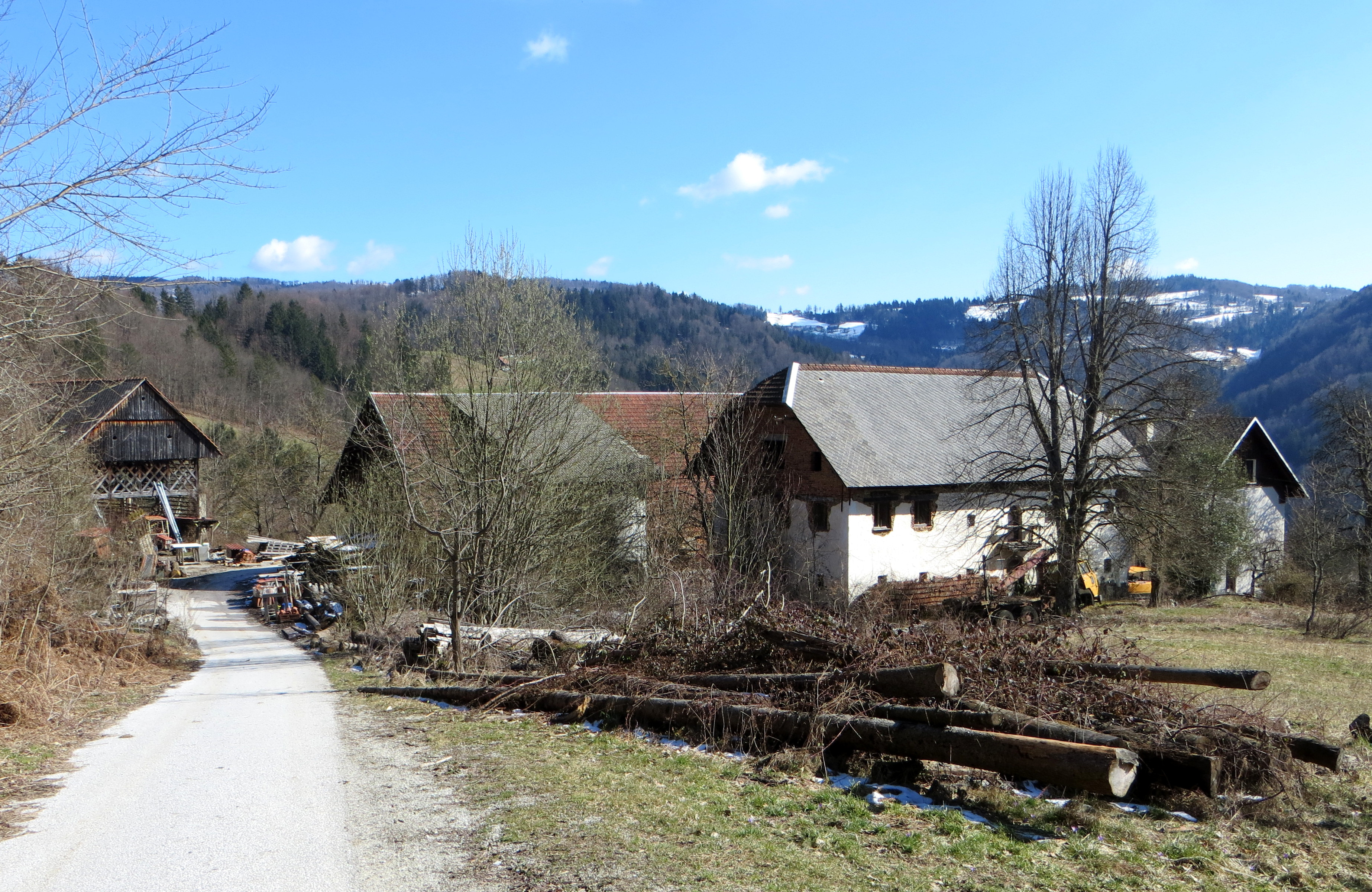 Bačne, Municipality of Gorenja Vas–Poljane, Slovenia